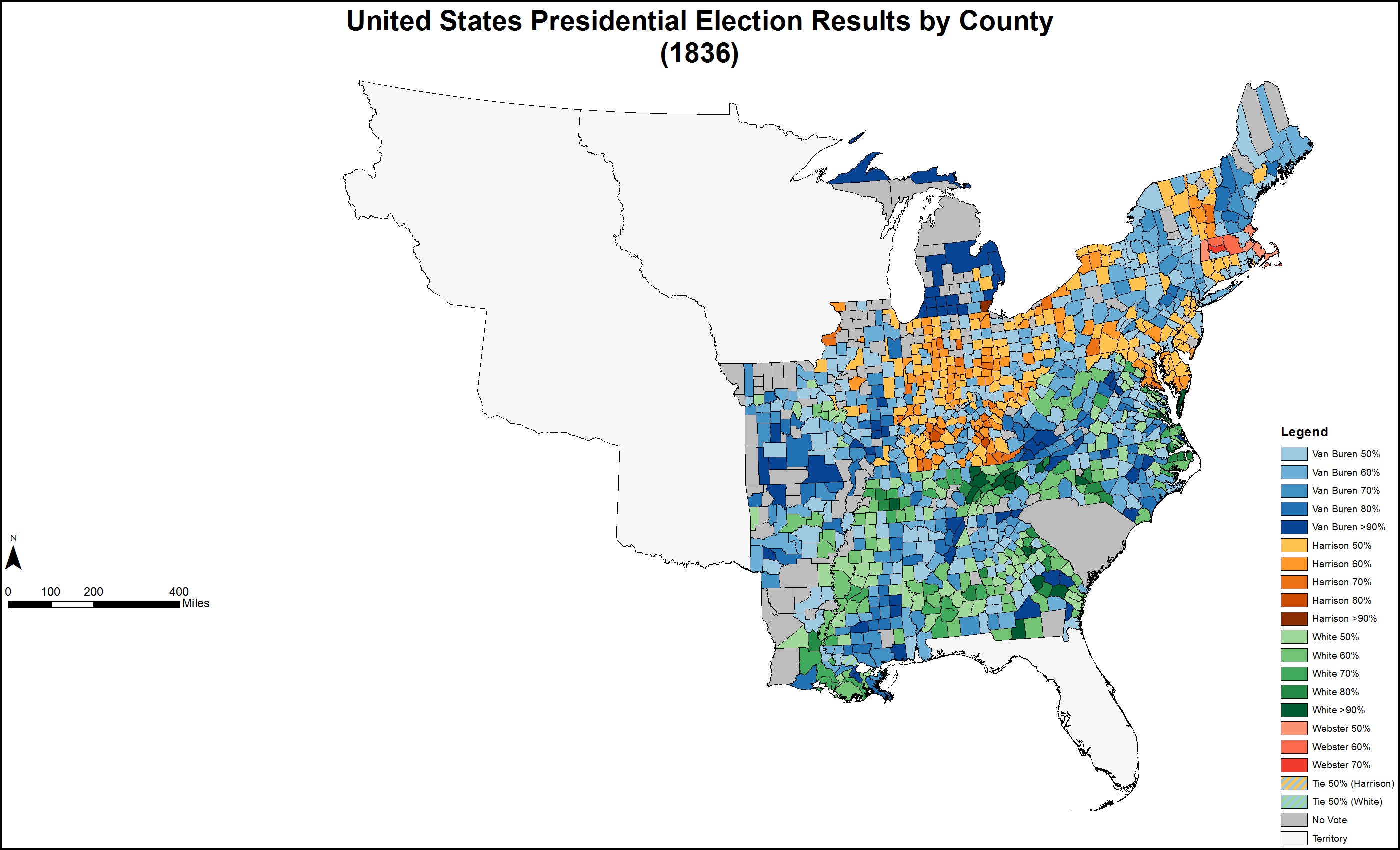 Presidential election results by county (1836). Colors based on Colorbrewer 2.0.